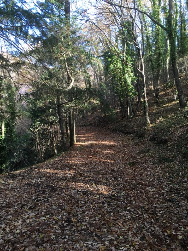 Path of Beauty